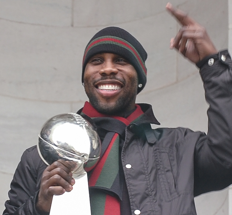 Baltimore Ravens wide receiver, Anquan Boldin, celebrating at the Baltimore Ravens’ Super Bowl XLVII victory parade on February 5, 2013.